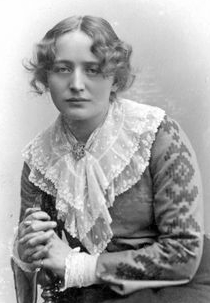 Portrait of of the Danish woodcarver Nanna Aarkær 1874-1962 (cropped version)